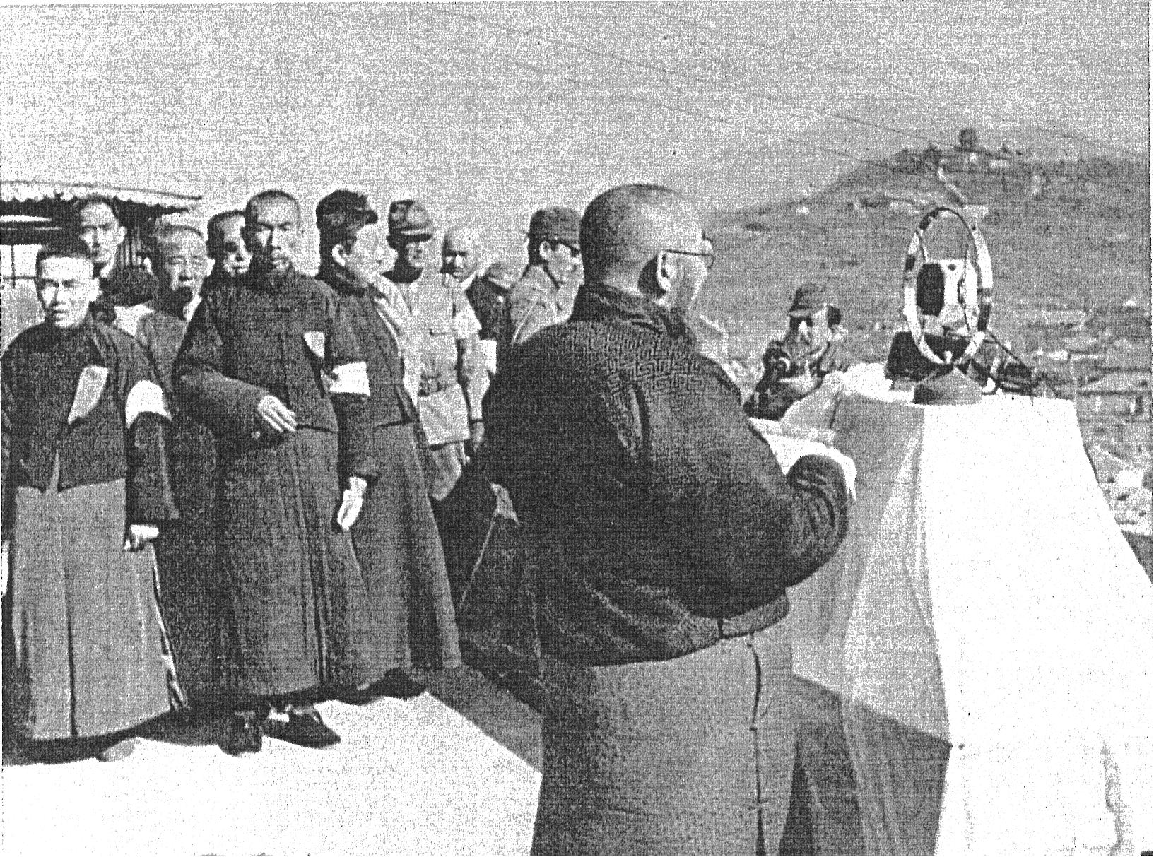 Declaration reading of Tao Hsi-shan, chairman of Nanking autonomous commission, at its inaugural ceremony（January 1, 1938）